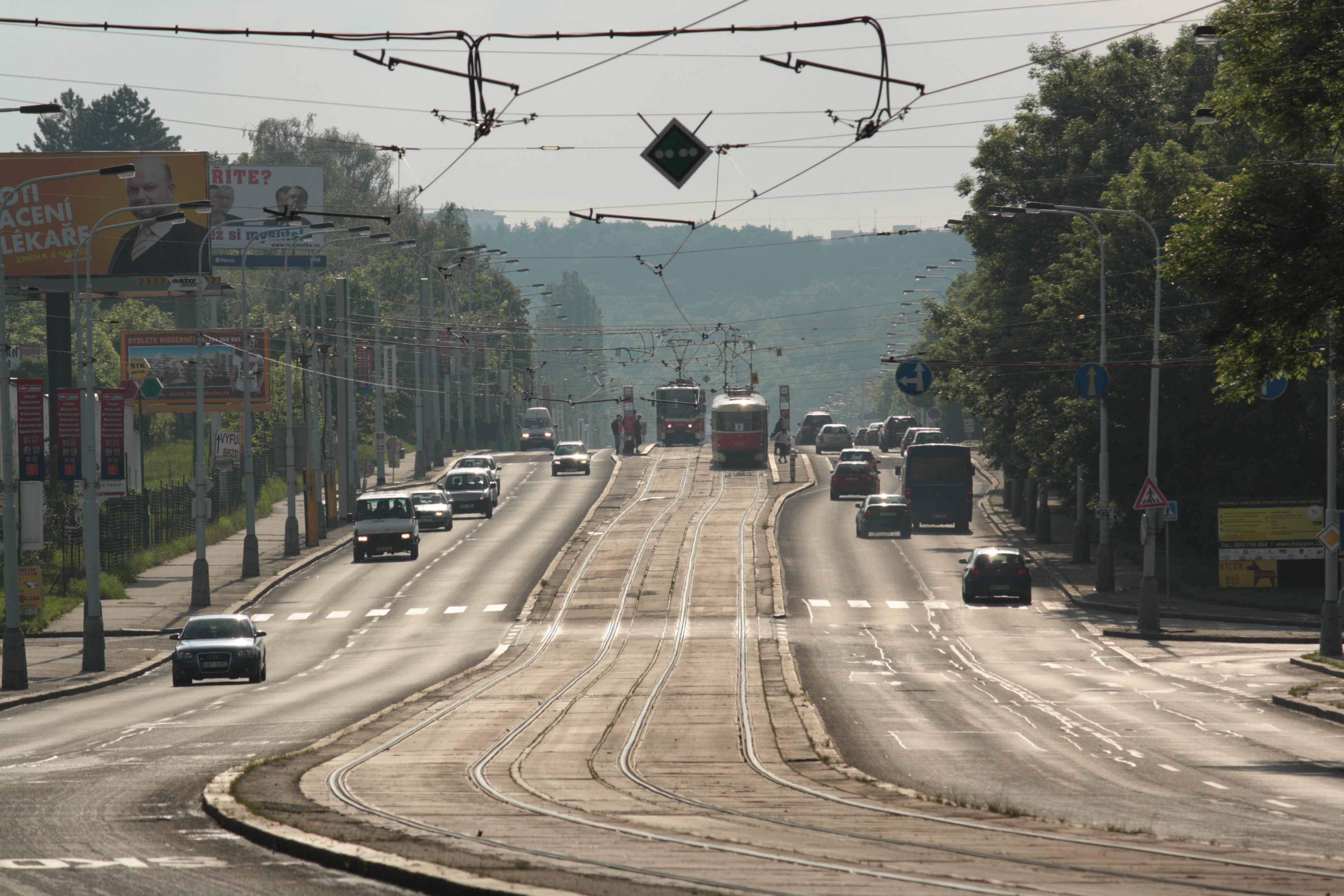 Plzeňská street from Poštovka to Motol Prague-Motol, Czech Republic